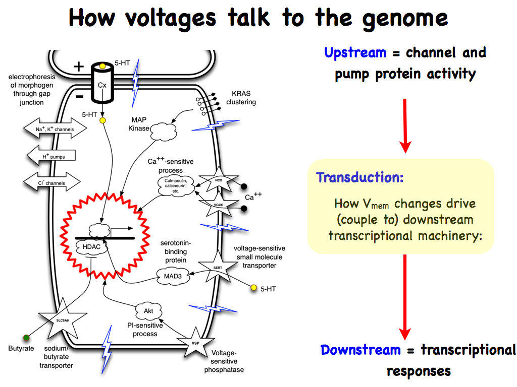 Schematic diagram of transduction from changes of resting potential to downstream effectors in cells